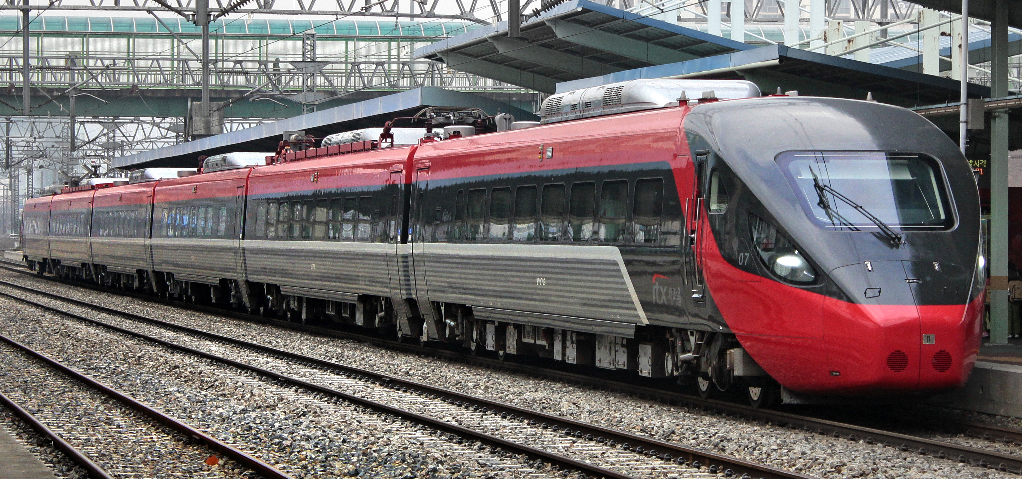 Southbound #1131 @Jochiwon Station